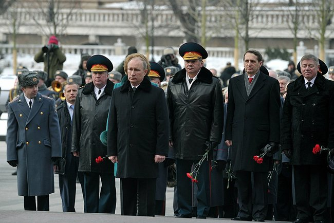 On the Defender of the Fatherland Day, Vladimir Putin laid a wreath at the Tomb of the Unknown Soldier. Alexander Garden. Moscow.